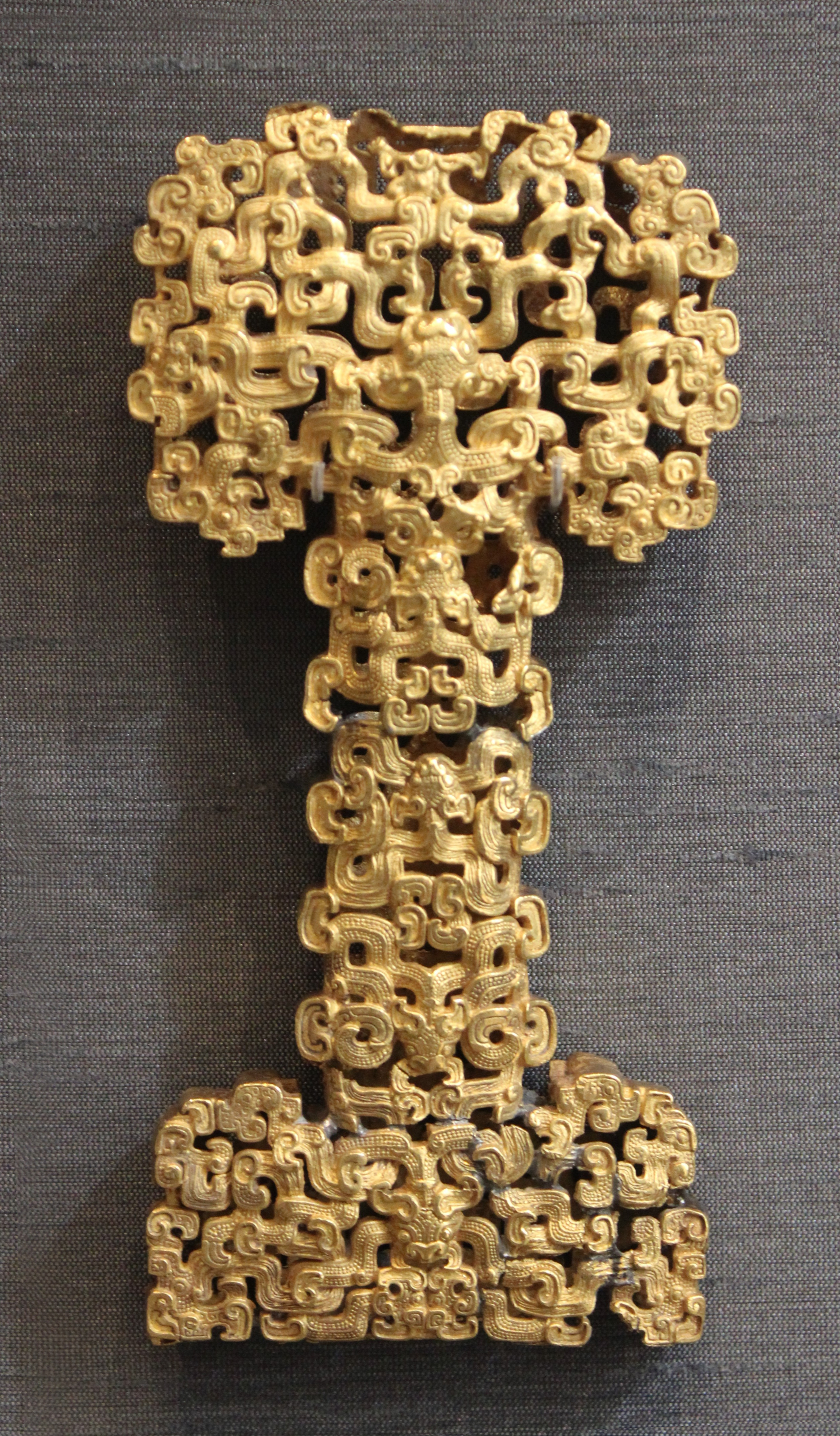 Openwork cast gold sword hilt, decorated with interlaced dragons, 6th-5th century BC, Eastern Zhou dynasty. Possible inspiration from Central Asia. It would have been attached to a bronze or cast-iron blade but was probably only intended for display, as the gold would have been too fragile for actual use. 1937,0416.218